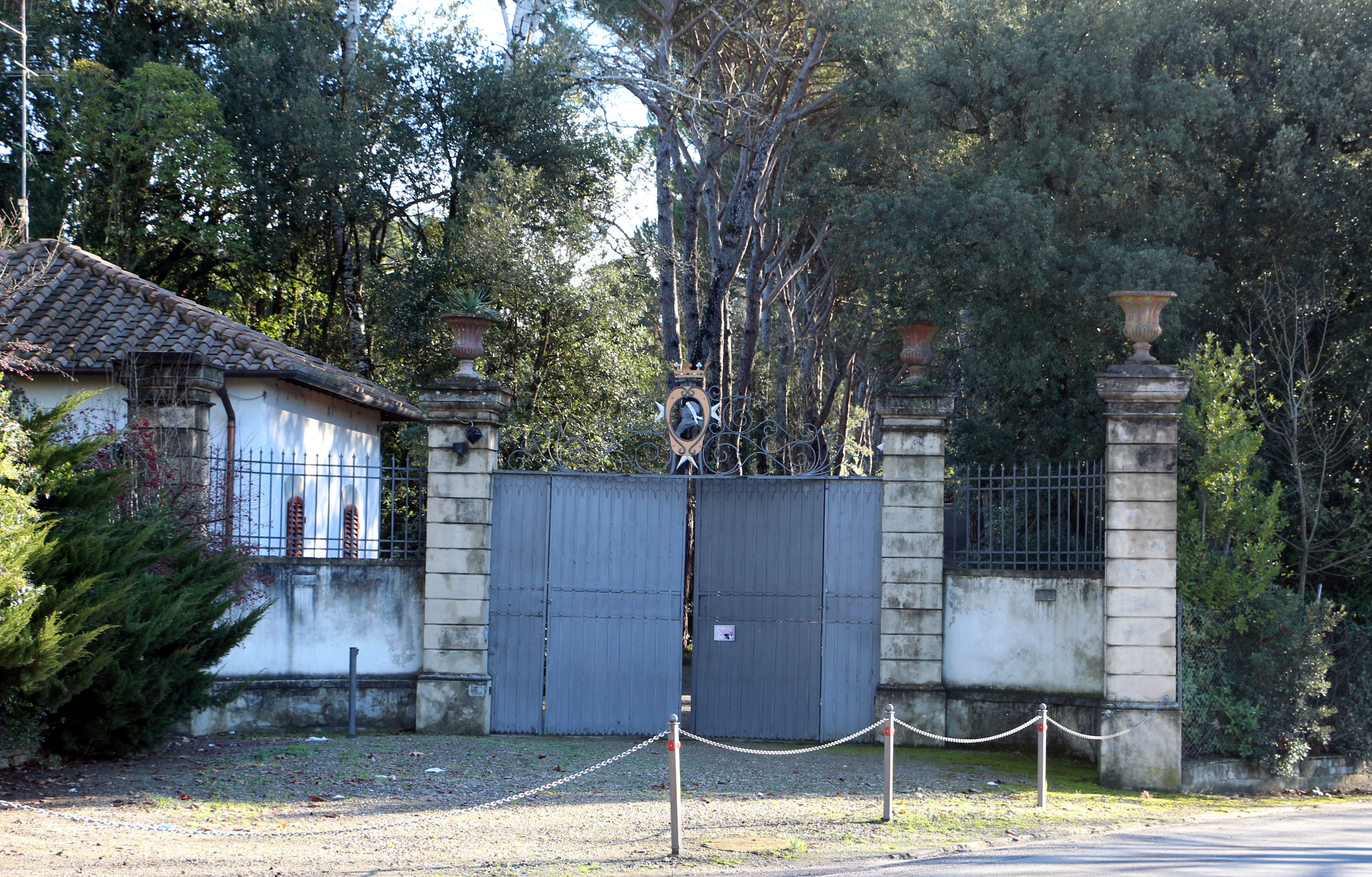 Miscellanea